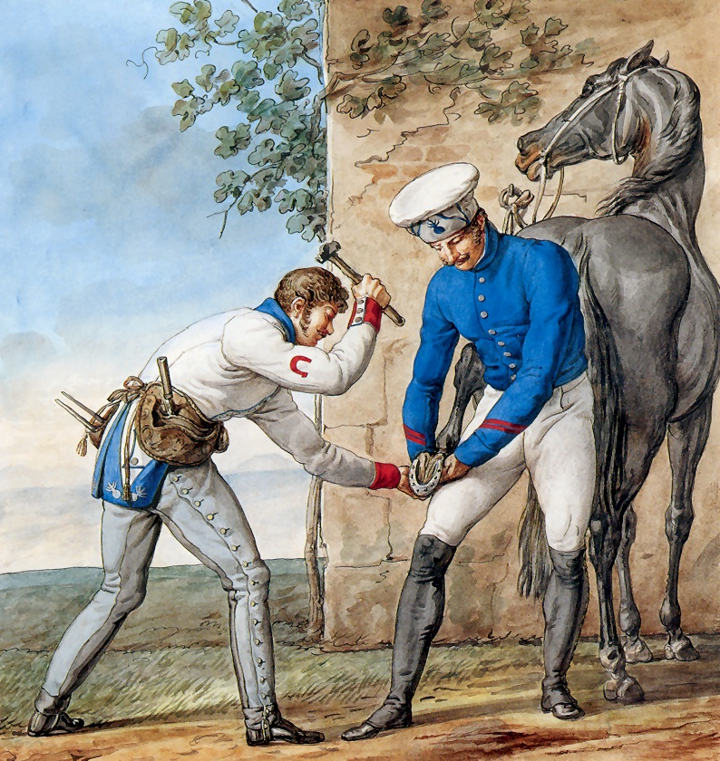 1st Regiment of Carabiniers - Fourrier Corporal. Part of a series chronicling the uniforms of Napoleon's Grande Armée.